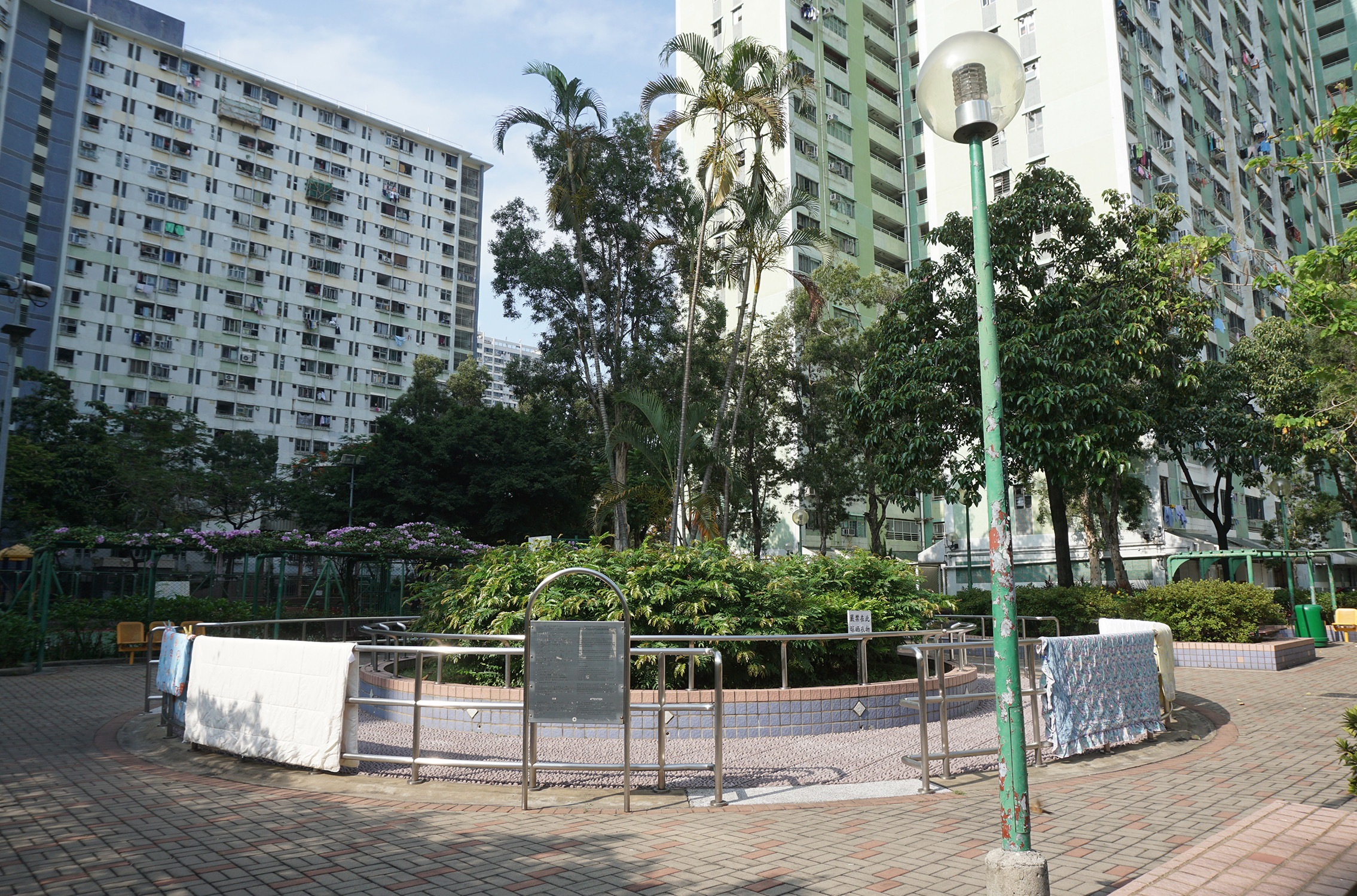 Yau Oi Estate in Tuen Mun, Hong Kong.